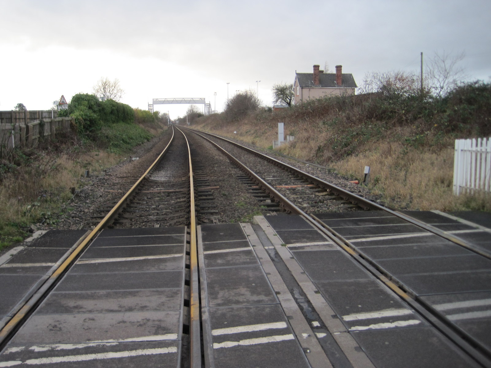 Norton railway station (site), County DurhamOpened in 1877 by the North Eastern Railway on the line from Stockton to Hartlepool, this station replaced an earlier one at Norton Junction. In turn,this one closed in 1960. View south west towards Norton Junction and Stockton.